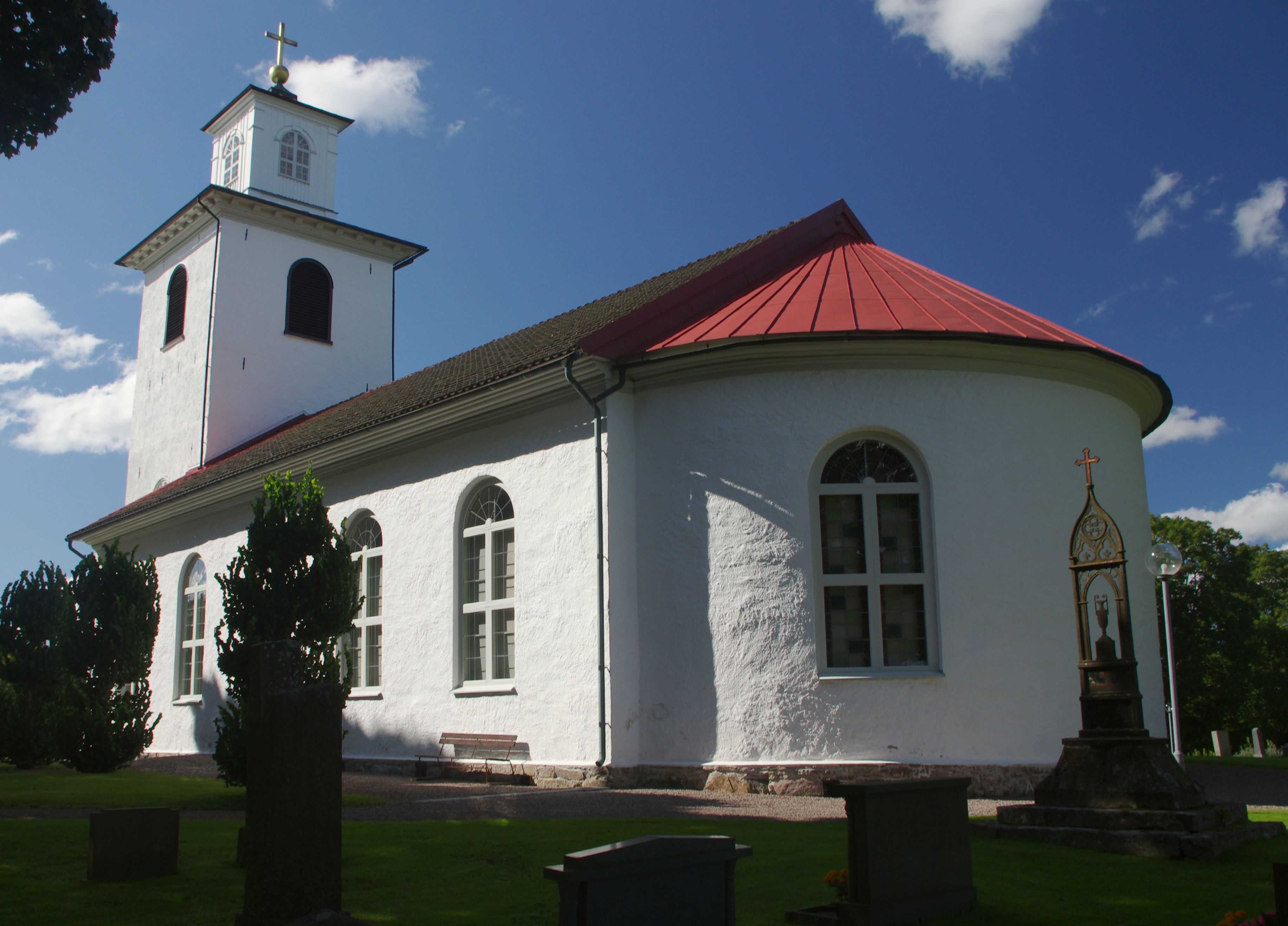 Liared church in Ulricehamn municipality in Västergötland and Västra Götaland county, Sweden.